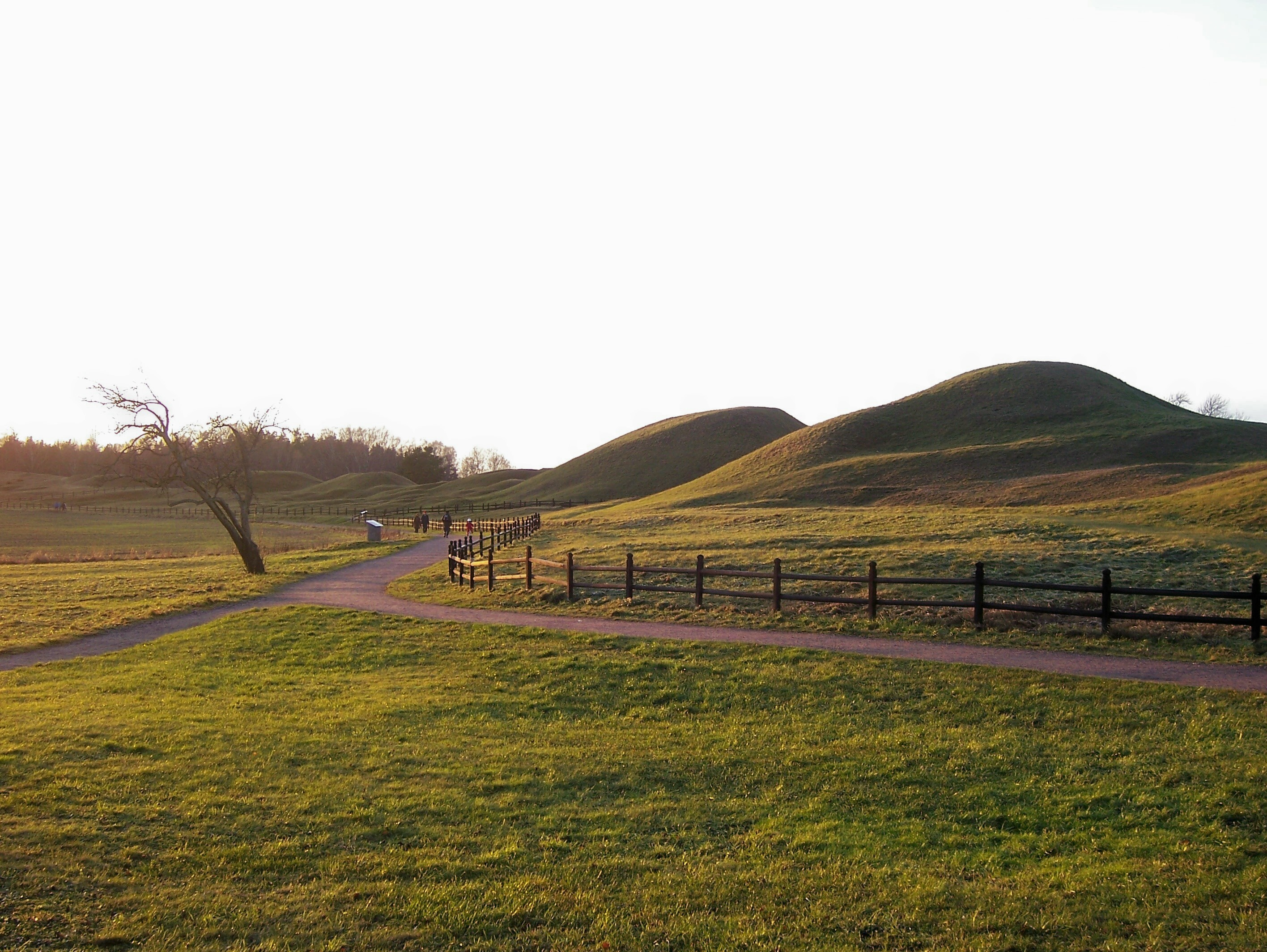 Royal burial mounds at Old Uppsala at sunset.